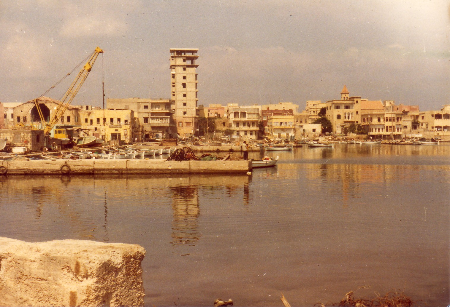 Tyre - Port Matuva trip to southern Lebanon - Summer 1982 Matzuva